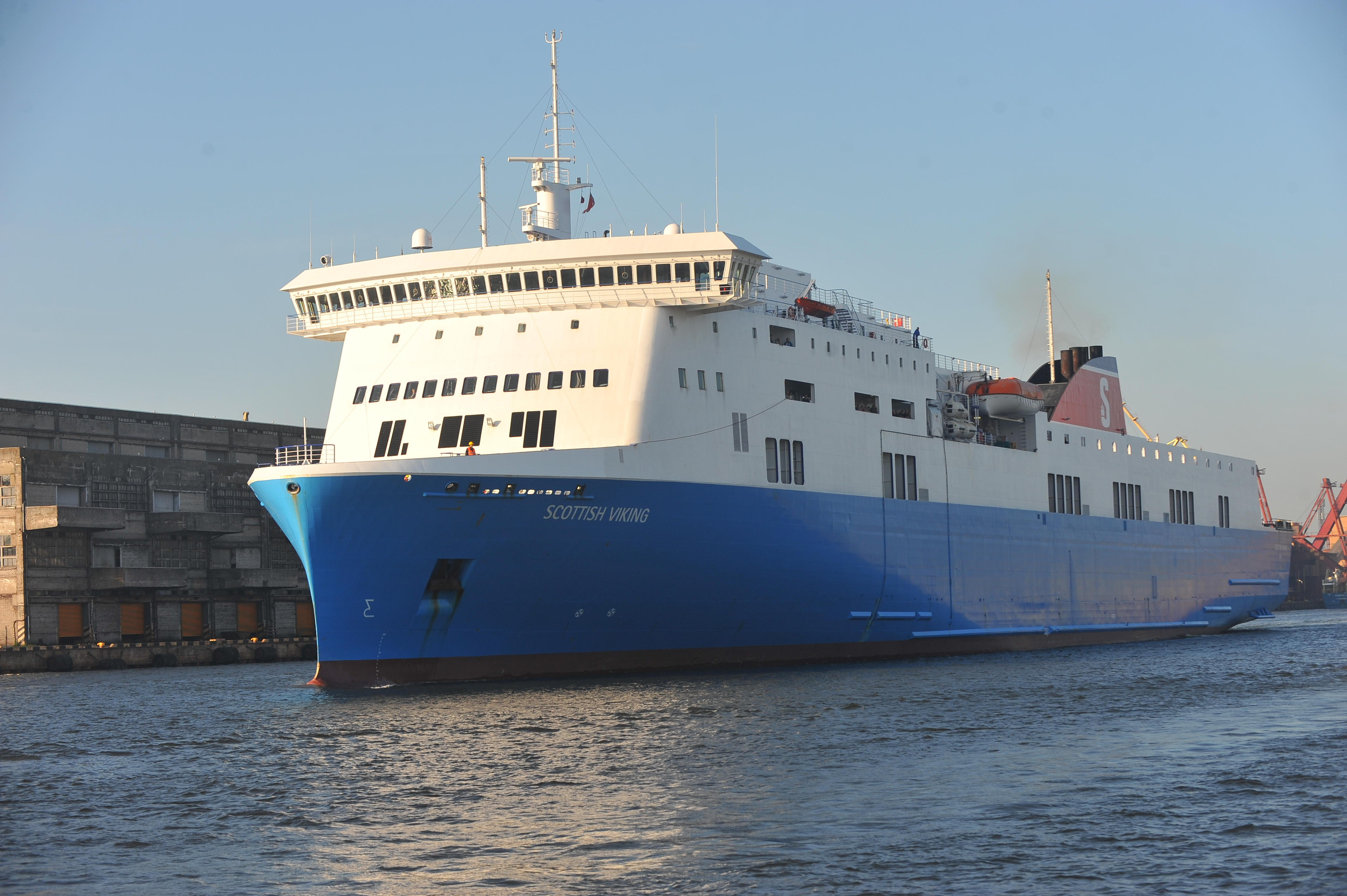 Ferry MS Scottish Viking of Stena Line.